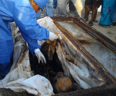 Exhumation during a wayuu "second burial" ceremony